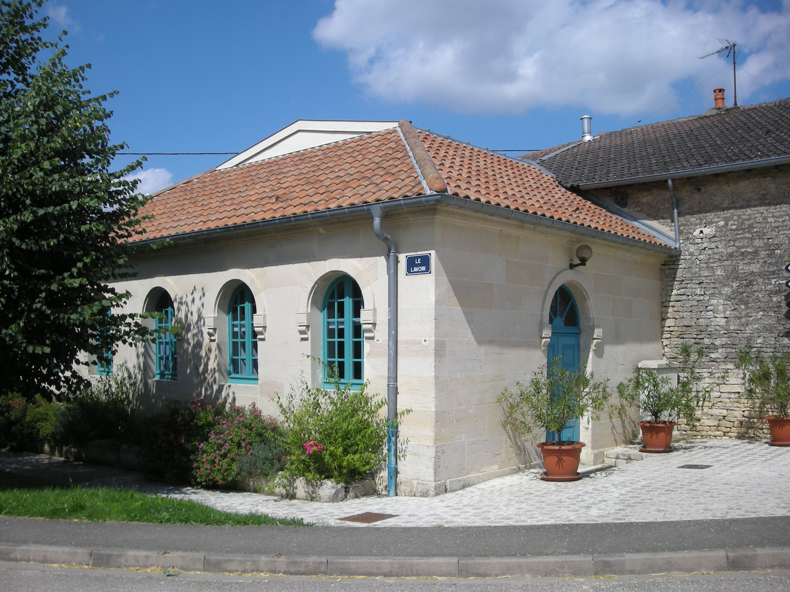 Wash house in Bure (Meuse)